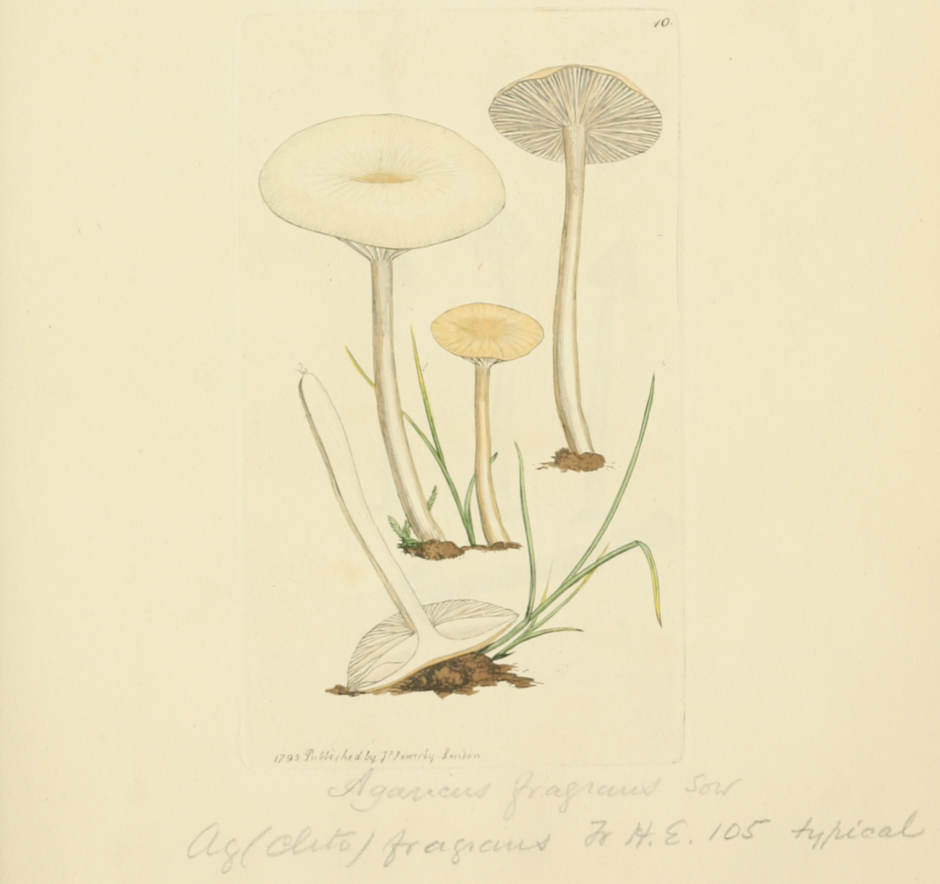 This is a plate from James Sowerby's Coloured Figures of English Fungi or Mushrooms.